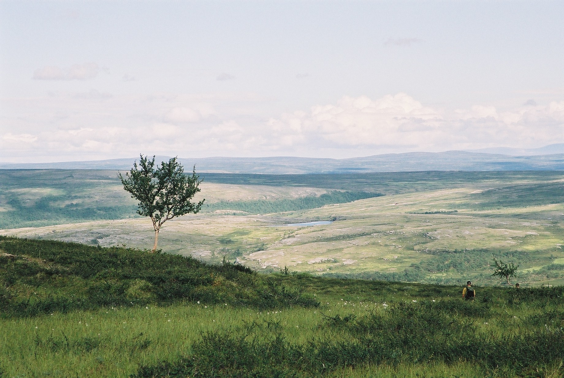 Finnmark plateau in the northern part of Norway.